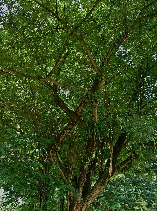 Dalbergia latifolia tree crown. Bogor, West Java, Indonesia.